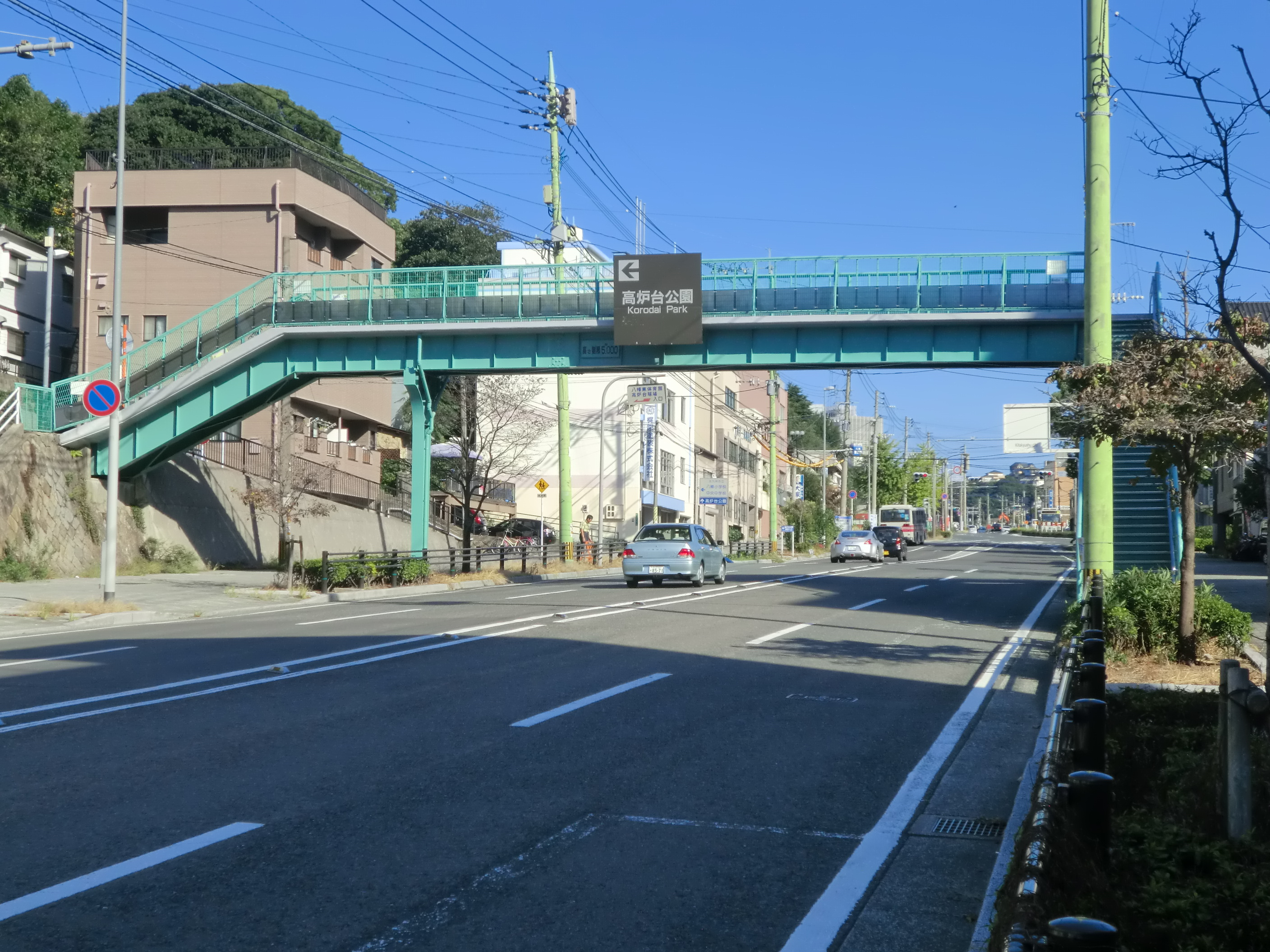 "Yoshibo Bashi"(Yoshibo boy memorial brigde) in front of Yahata elementary school at Kitakyushu,Fukuoka,Japan.